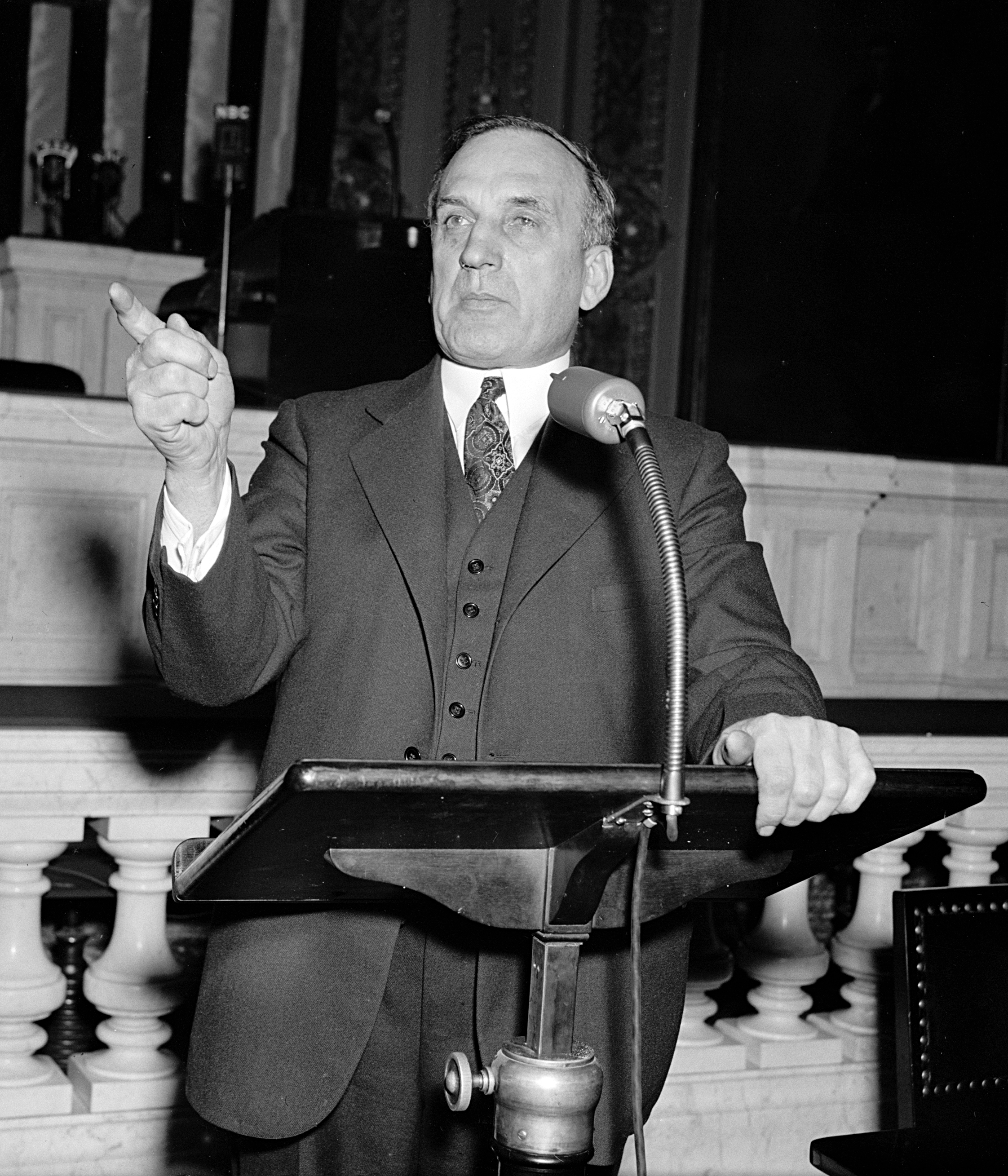 J. Buell Snyder, US Representative from Pennsylvania